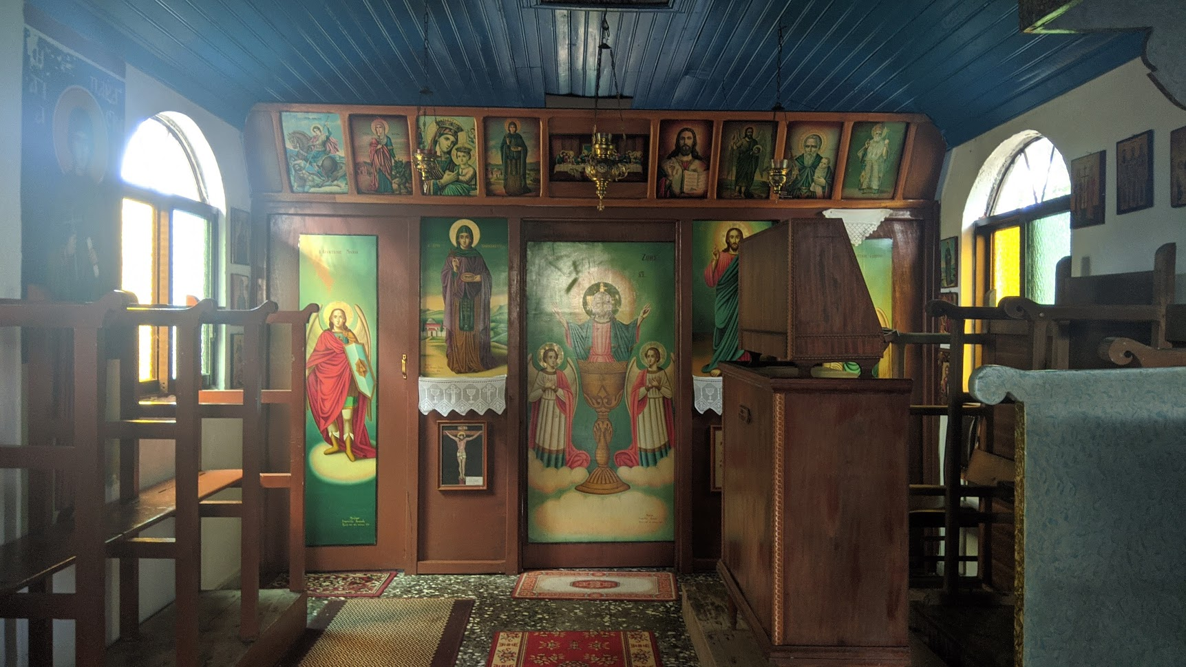 Εσωτερικό Αγίας Παρασκευής Αλεποχώρι Έβρου